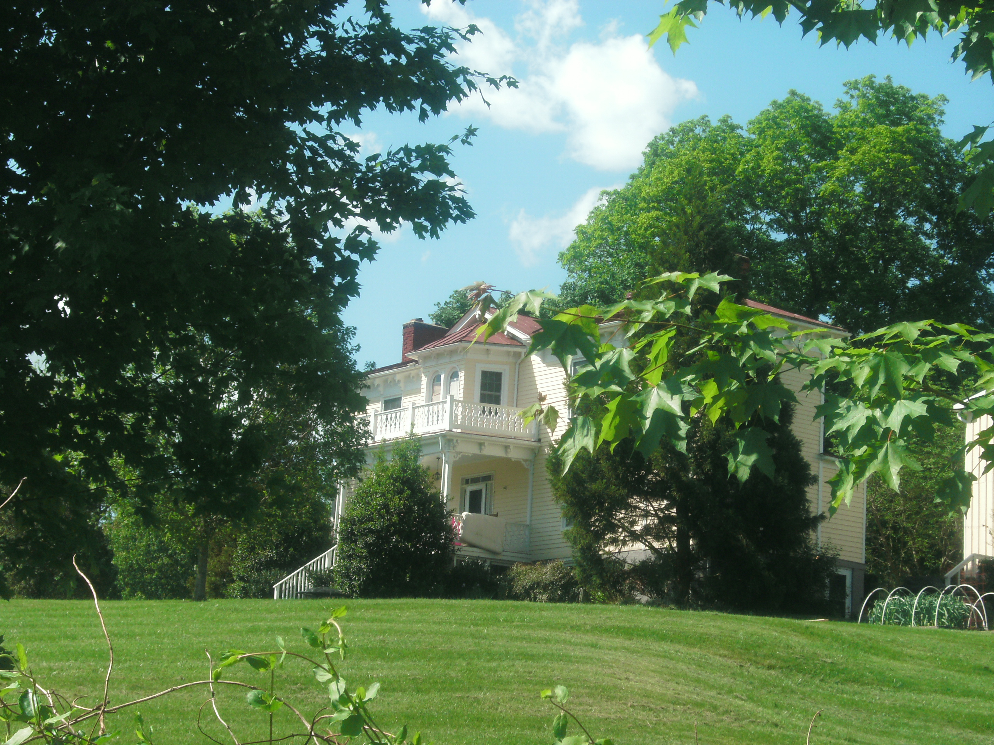 Taken by me in May, 2016 GEDSC DIGITAL CAMERA